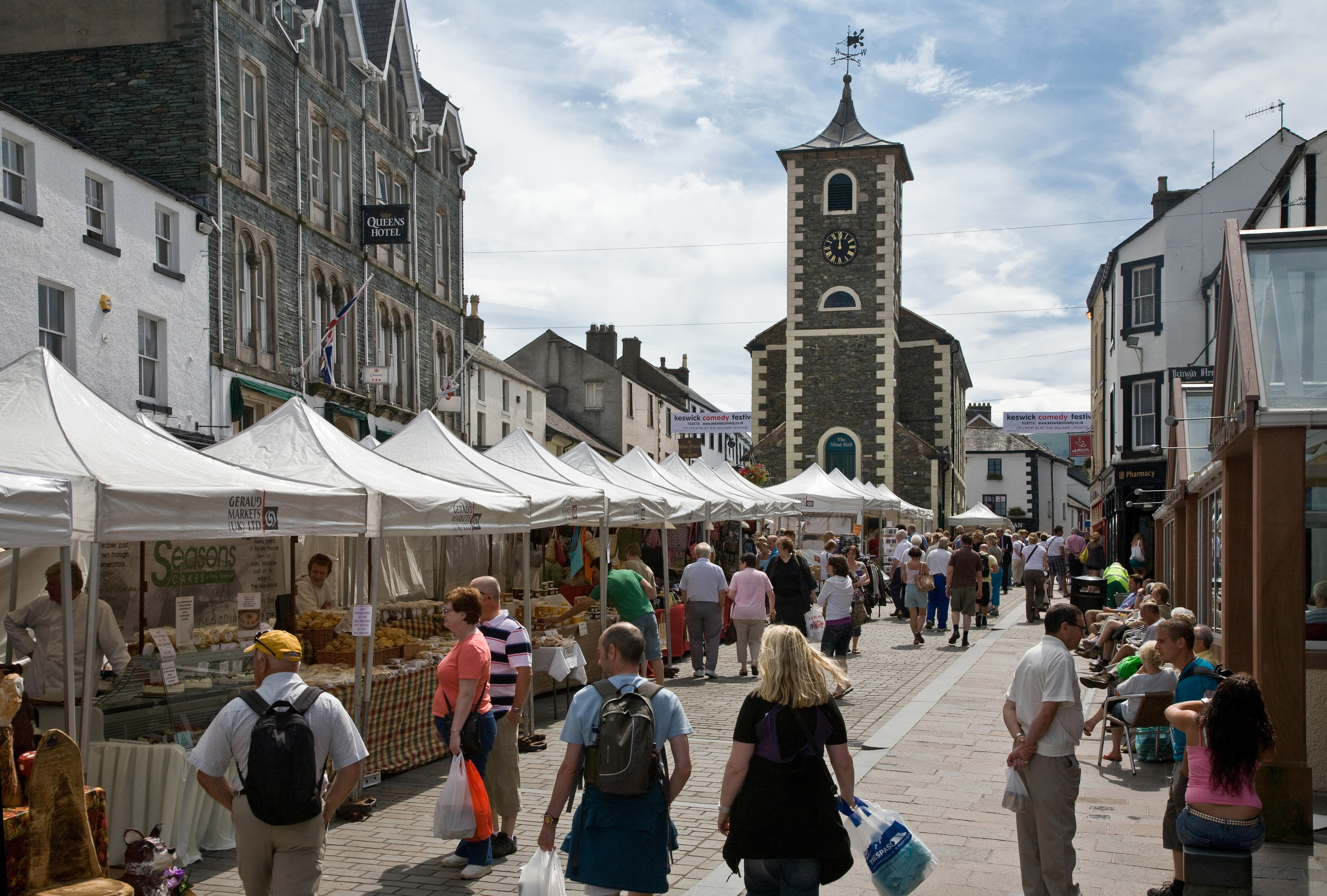 Keswick Saturday Market in Keswick, Cumbria, England.